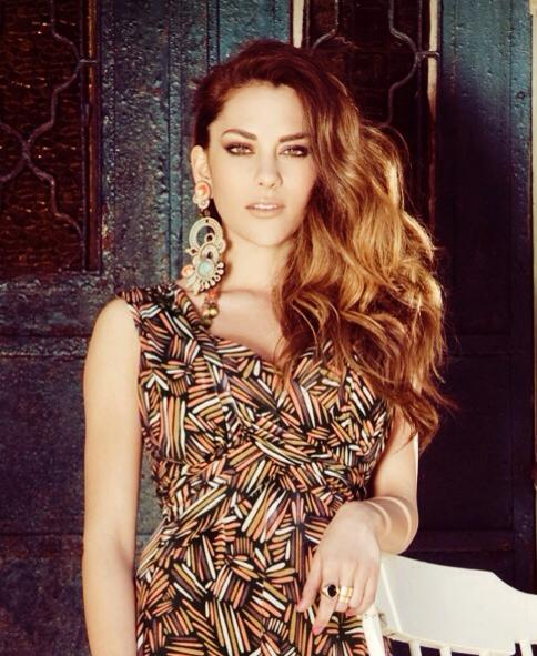 inbar lavi